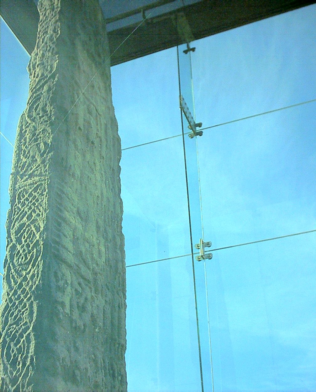 Sueno's Stone, Forres, Moray, Scotland Author: Wojsyl